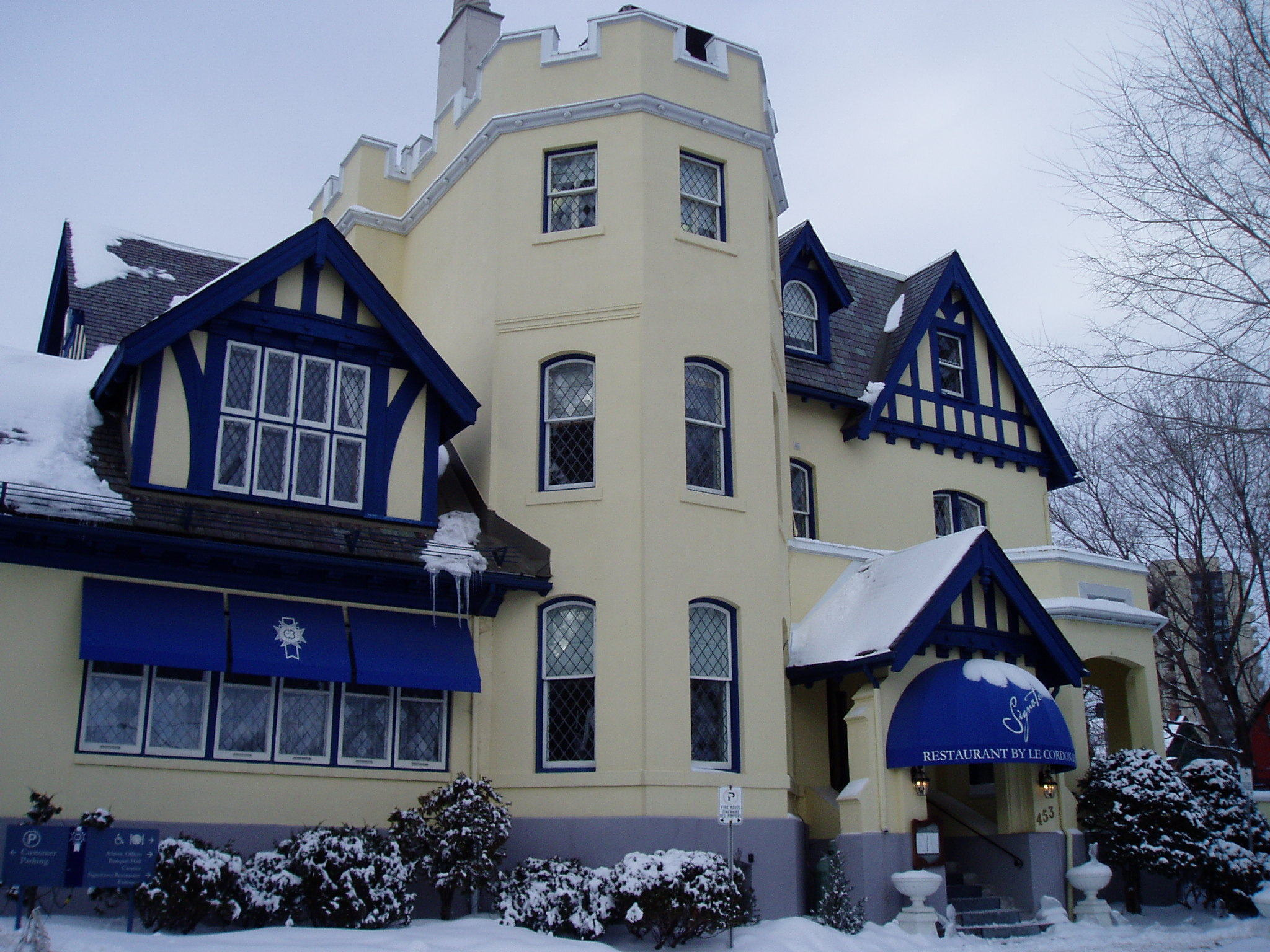 Le Cordon Bleu in Ottawa, Canada